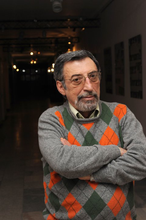 Armenian award winning director, professor, actor